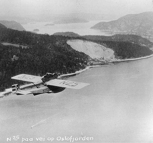 Dornier Do J N25, belonging to Norwegian polar explorer Roald Amundsen, flying up the Oslofjord in Norway from Horten to Oslo.